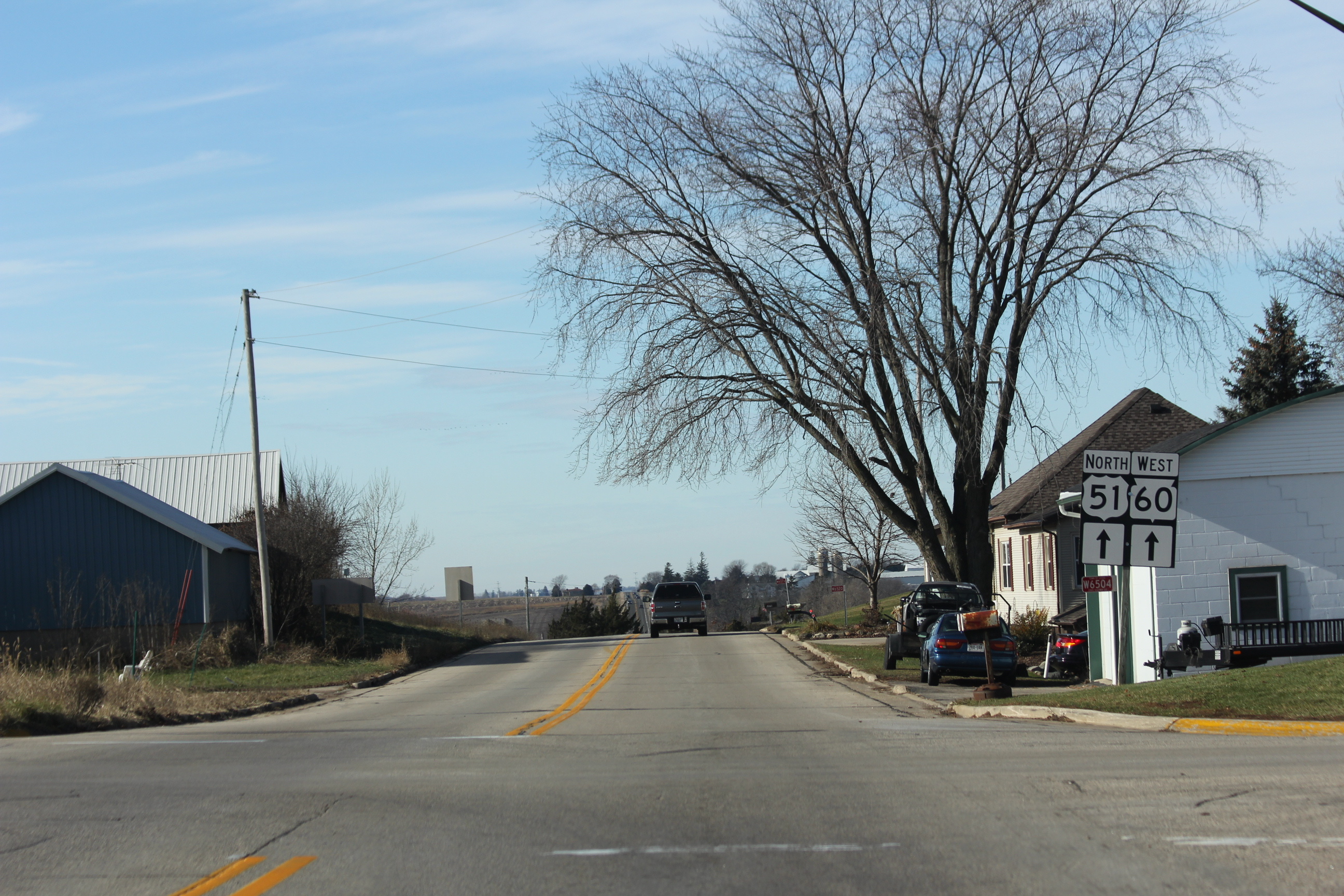 Looking west in North Leeds, Wisconsin on Wisconsin Highway 60 / U.S. Route 51.